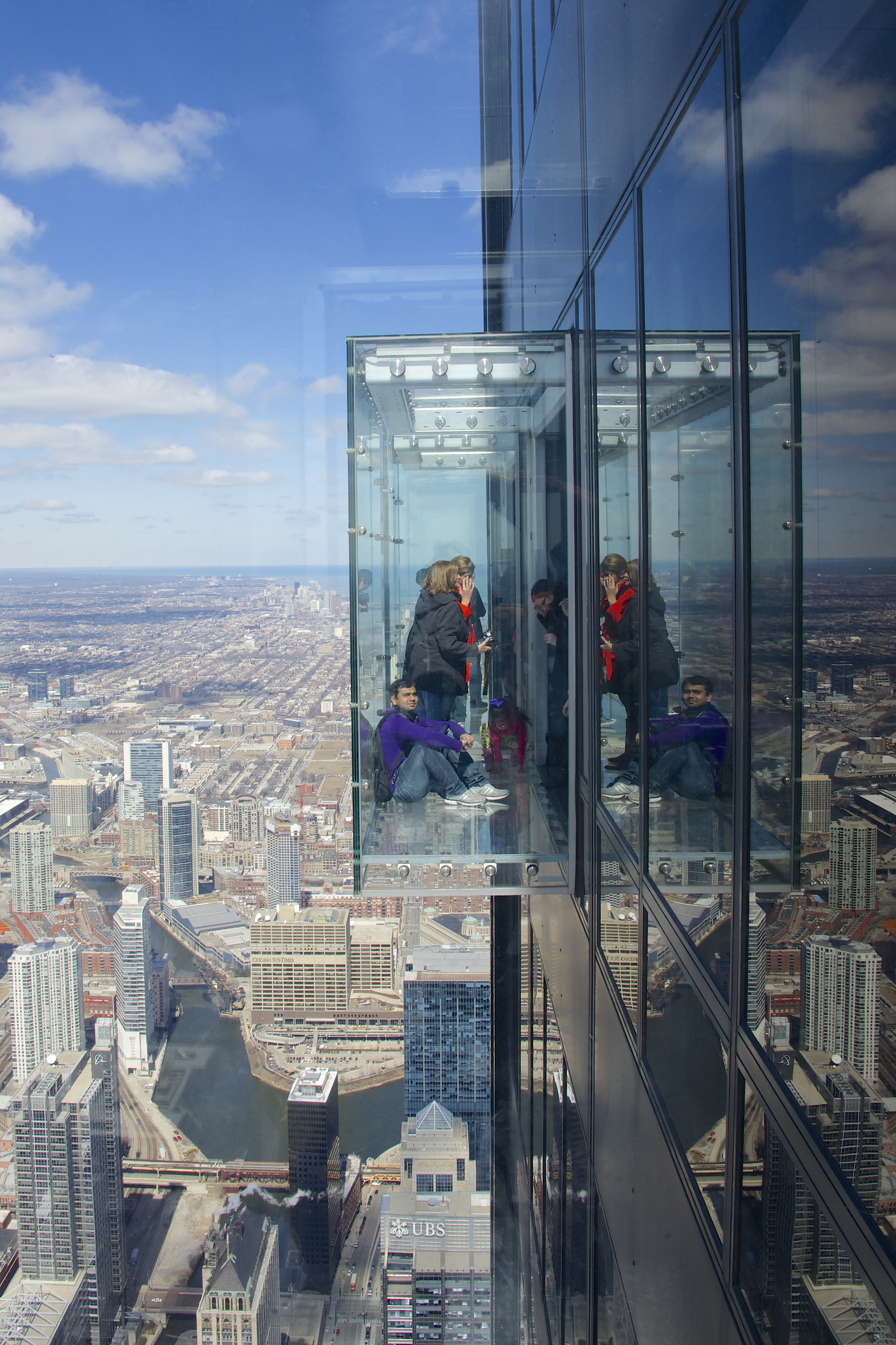 On the 'Skydeck' of the 103rd floor of the Willis (Sears) Tower in Chicago. The informational displays said these are retractable, which makes them even more amazing.